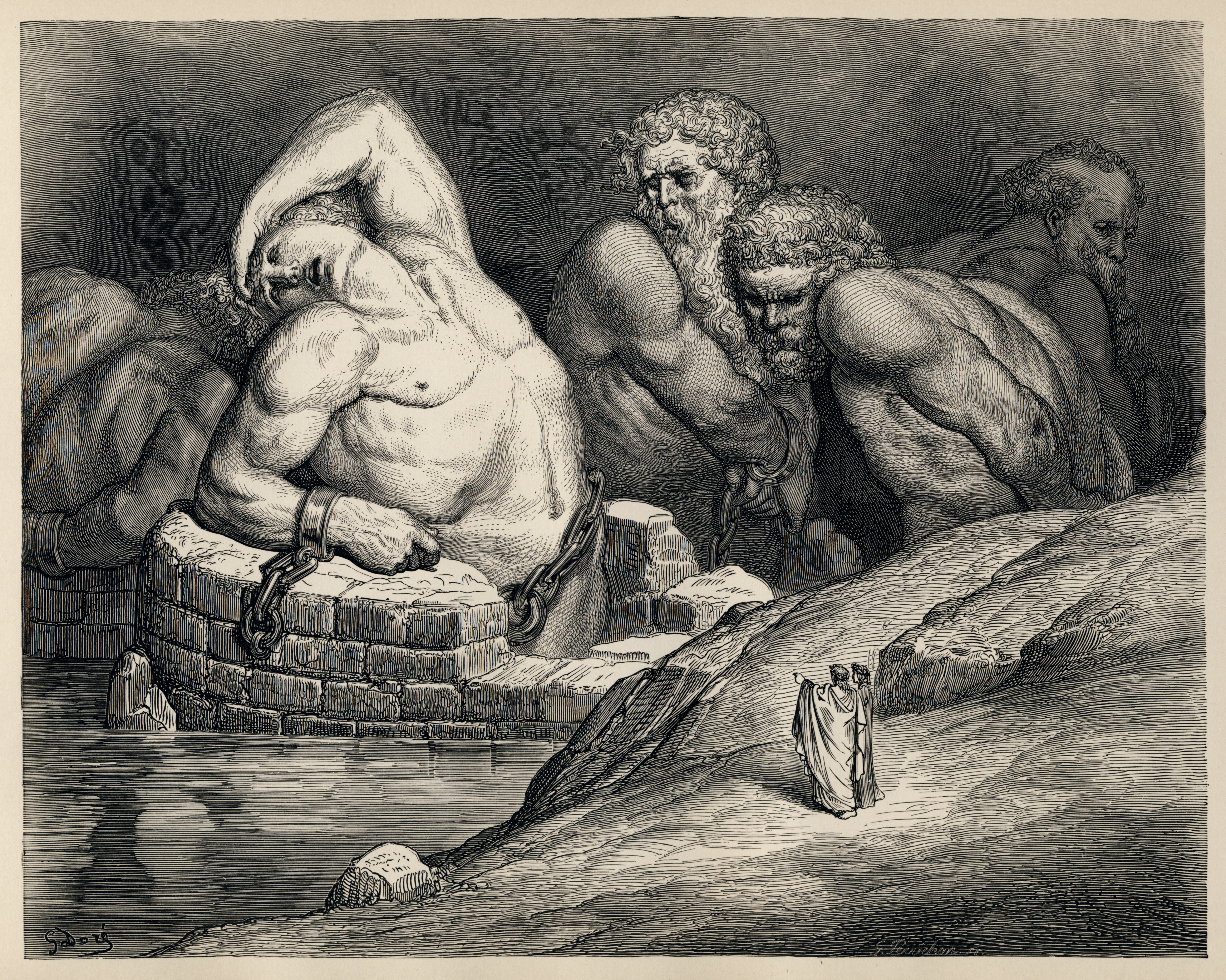 Gustave Doré's illustrations to Dante's Inferno, Plate LXV: Canto XXXI: The titans and giants. "This proud one wished to make experiment / Of his own power against the Supreme Jove" (Longfellow).